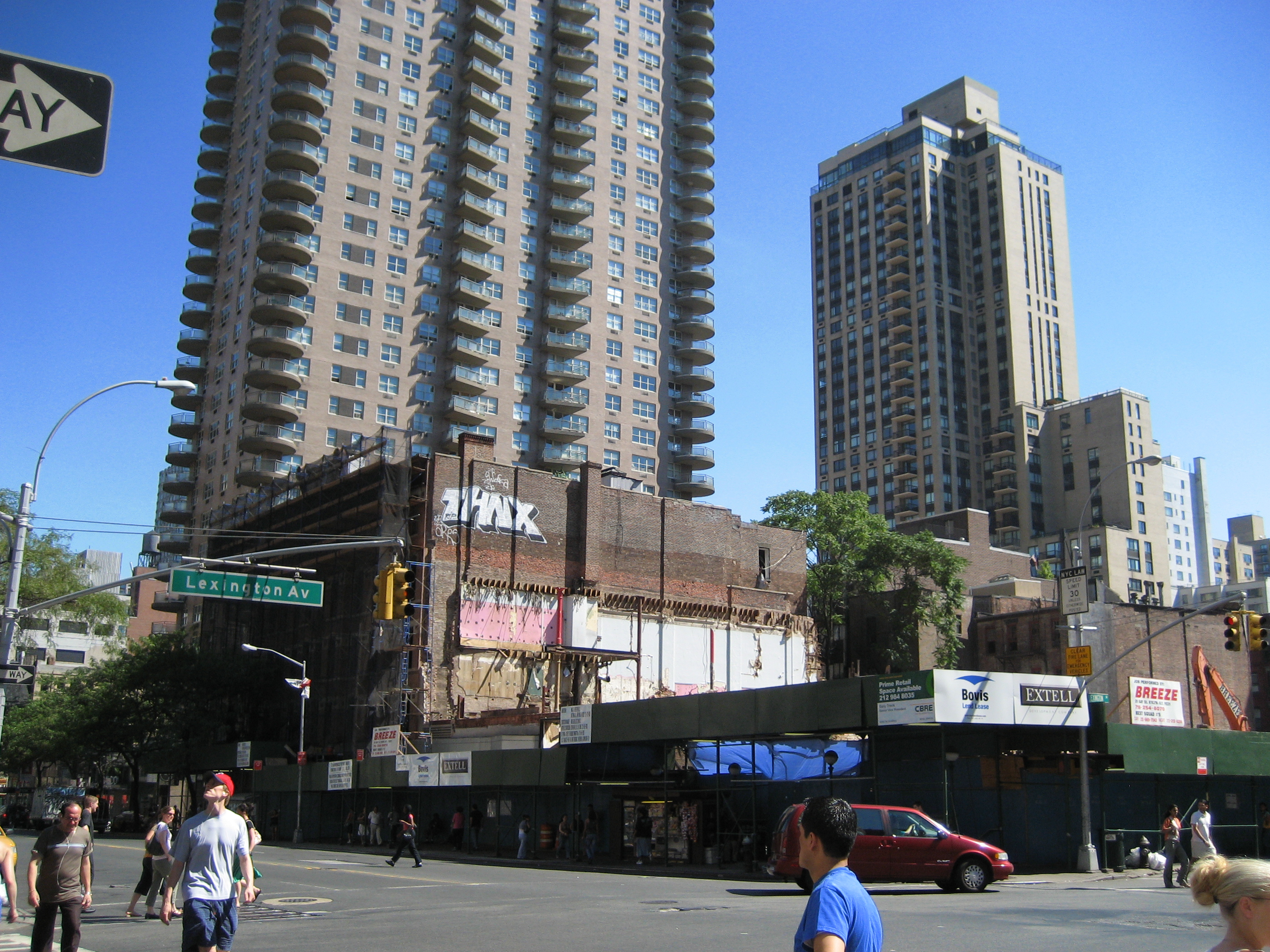 Looking east across Lexington Avenue and 86th Street at a building site, in the Borough of Manhattan, New York City.